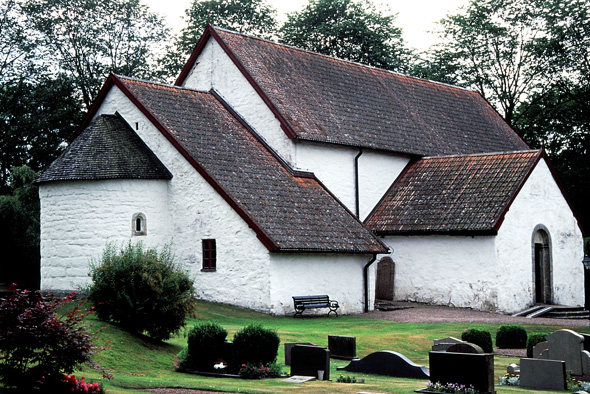 Gökhems kyrka in Falköping municipality, Sweden, was built around 1070.